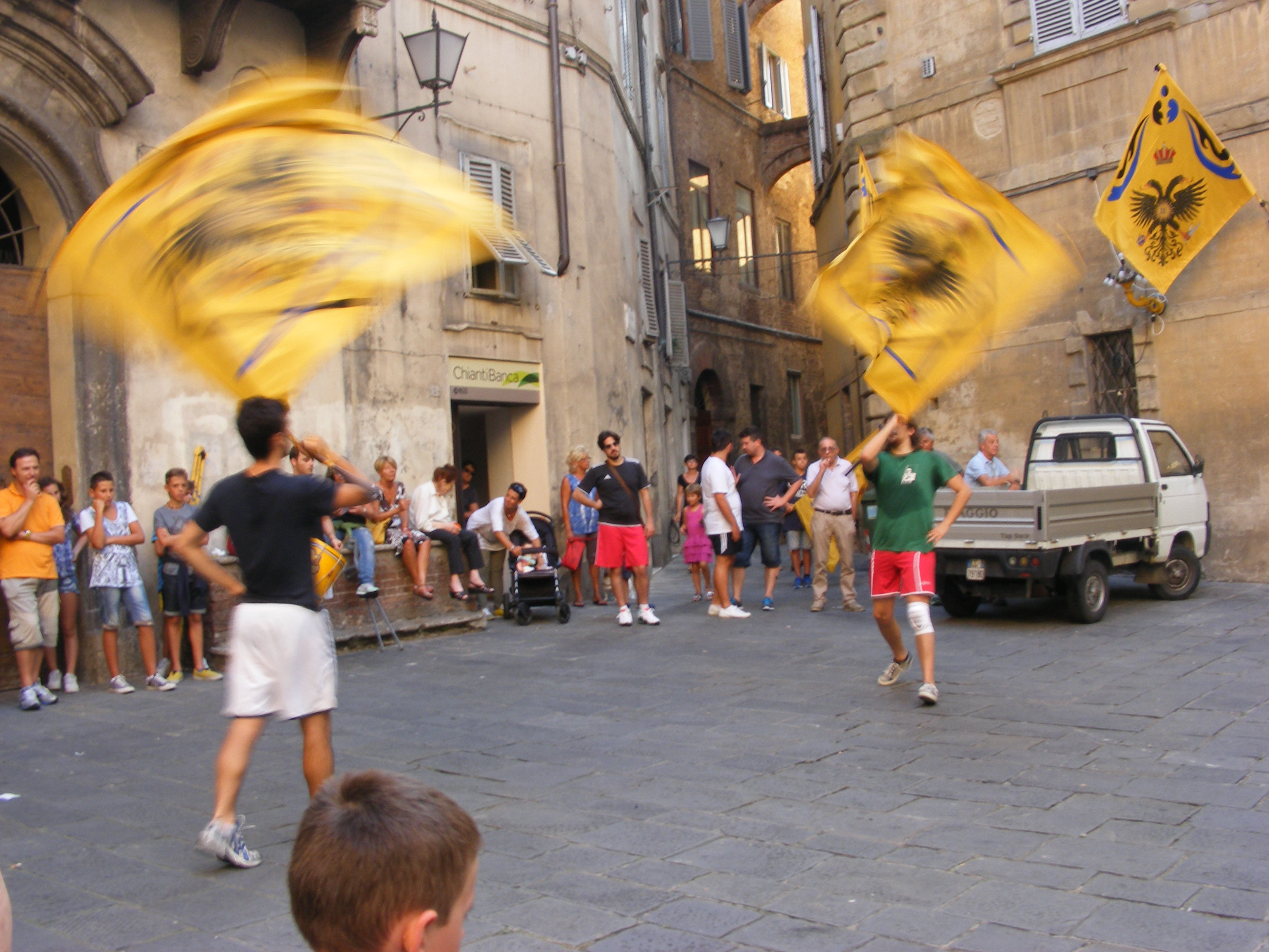 Siena: Contrada "Aquila" practising their traditional flag waving in the old city